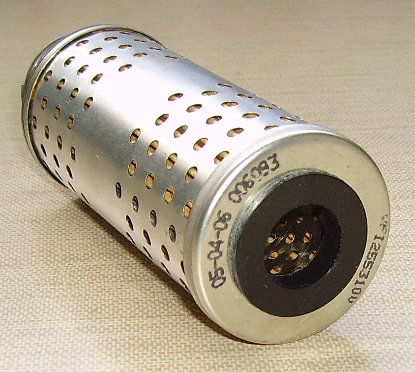 Moto Guzzi Breva oil filter.